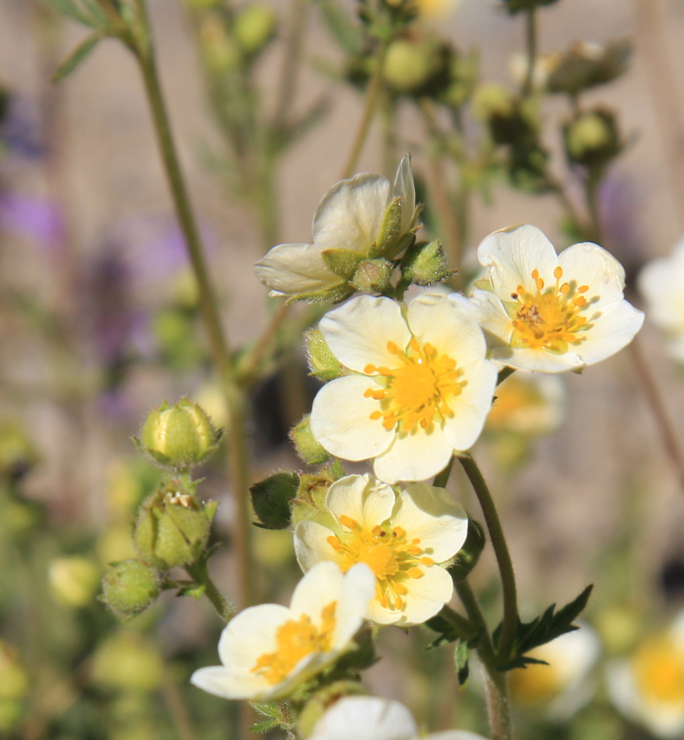 White cinquefoil (Potentilla glandulosa), closeup of white to pale yellow flowers. At 10,300ft at SE edge of Steelhead Lake, 20-Lakes Basin, Hoover Wilderness, California.